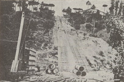 Inclined plane for carts, used on the transport of materials during the construction of the D. Maria Pia bridge, in Portugal. This photograph was published in the Gazeta dos Caminhos de Ferro magazine No. 1652, of 16th October 1956, and scanned by the Hemeroteca Municipal de Lisboa.